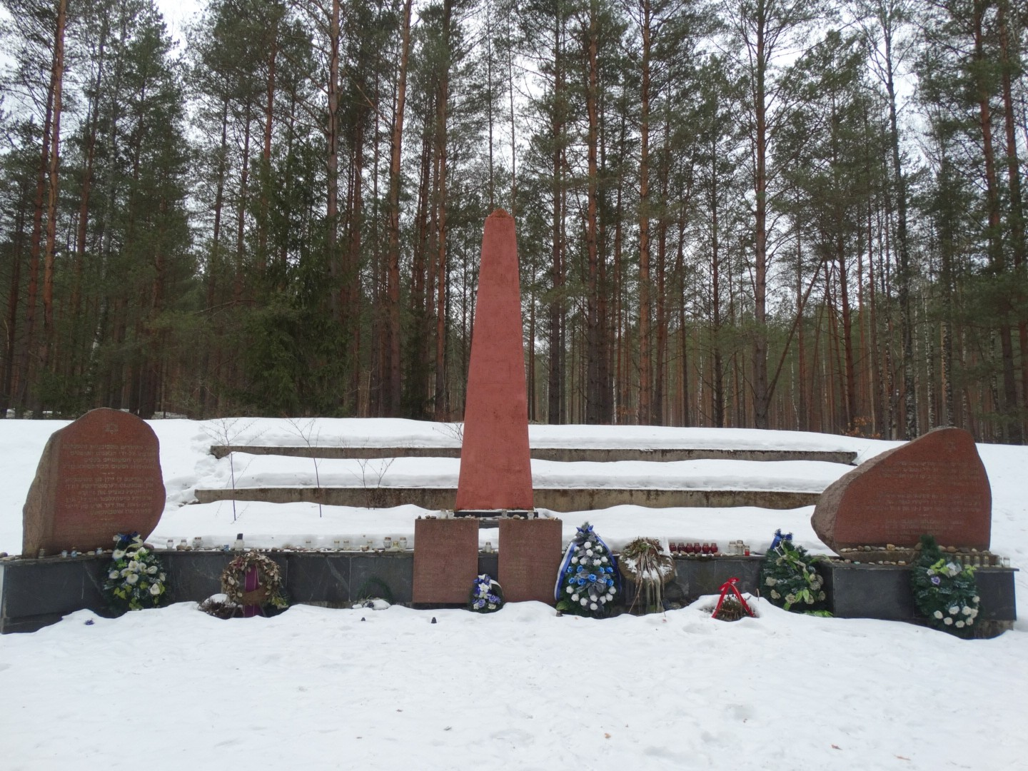 Jewish genocide monument, Švenčionėliai, Lithuania